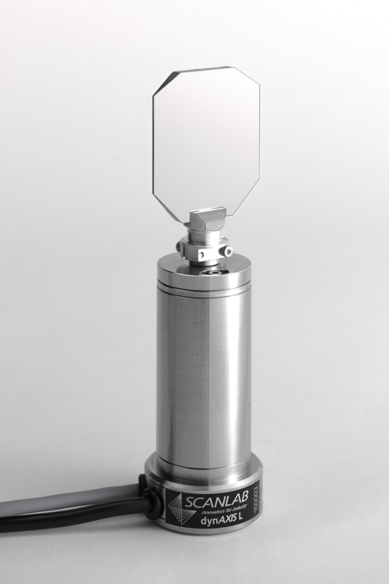 galvanometer scanner "dynAXIS L" from SCANLAB AG, Germany